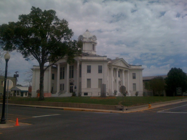 Vernon Parish Courthouse in Leesville, Louisiana in 2010.